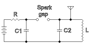 A diagram of an experimental spark-gap radio transmitter. This elementary circuit is quite different from those of practical spark transmitters, which were used around the first decades of the 20th century. The battery would need to have a potential of at least a thousand volts, to cause a spark across the spark gap. And the circuit has no switch or key for creating repeated sparks. This circuit would create a single spark when the battery was attached, then nothing.